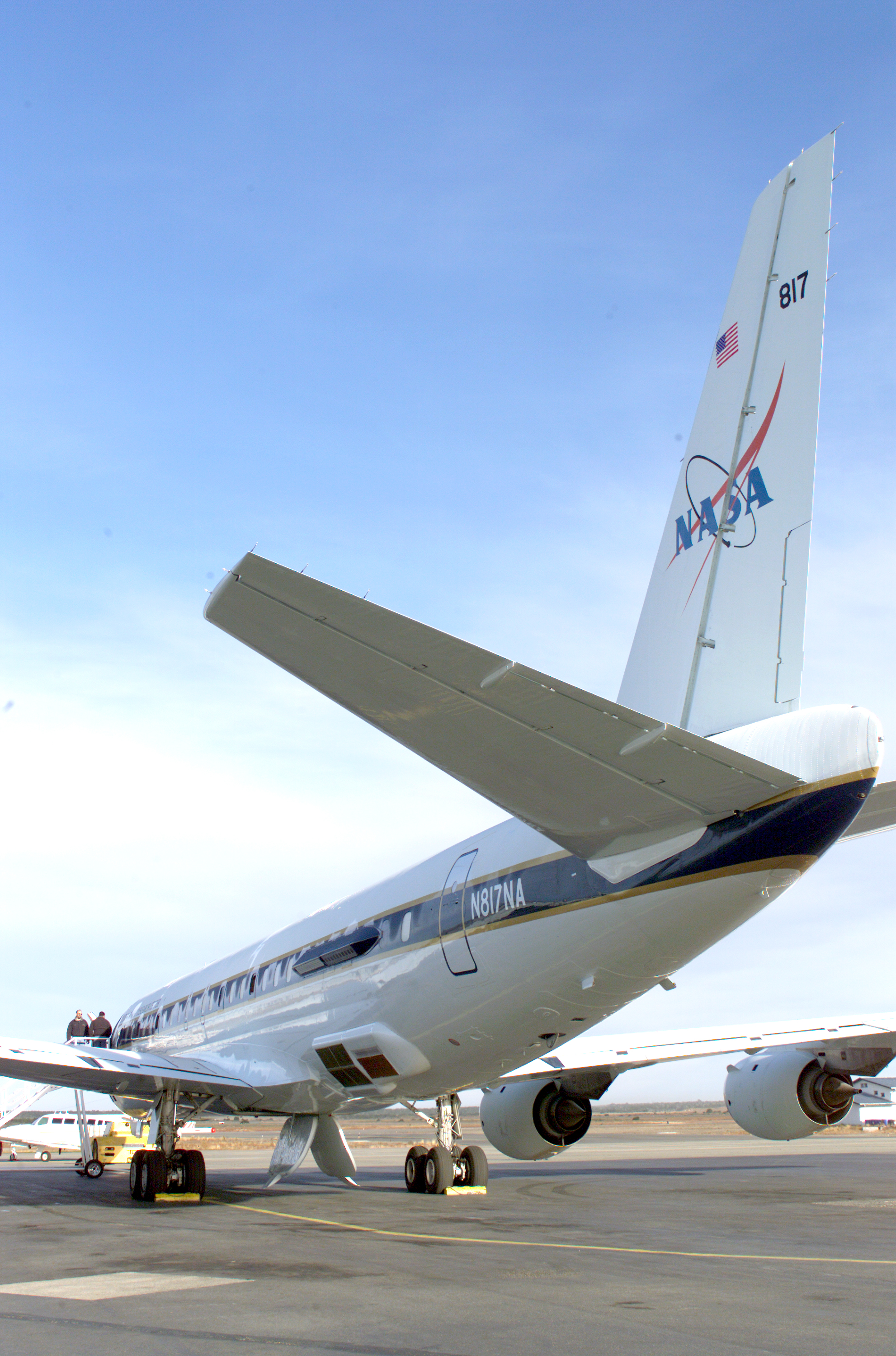 NASA AirSAR instrument mounted on their DC-8 flying laboratory.